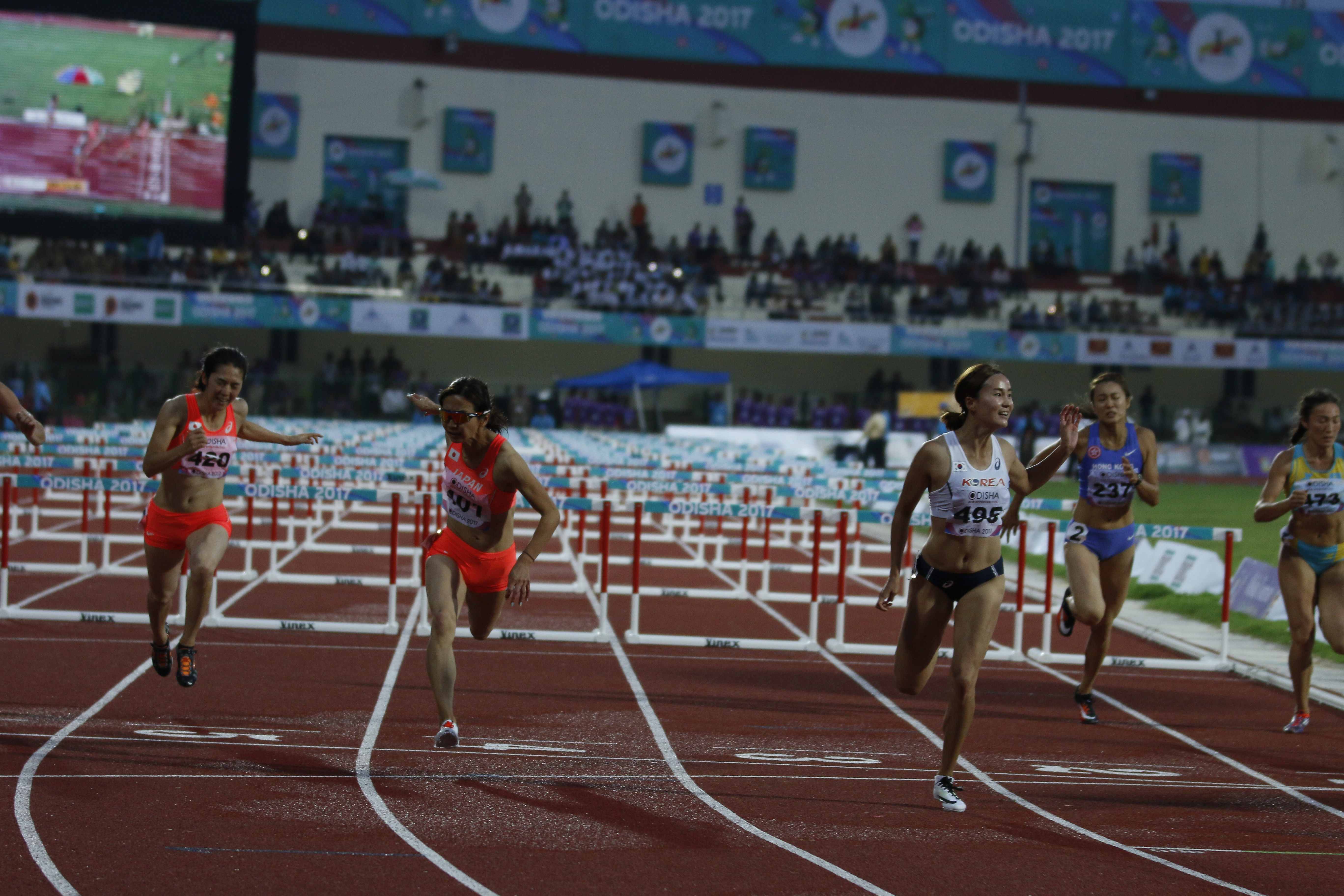 from the 22nd Asian Games in Odisha. 2017 Asian Athletics Championships. 6 to 9 July 2017 at the Kalinga Stadium in Bhubaneswar